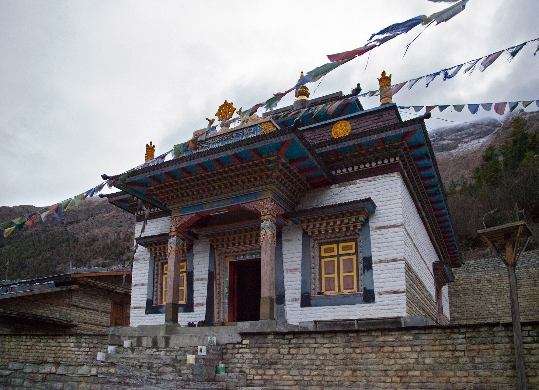 Buddhist temple in Upper Pisang, Nepal